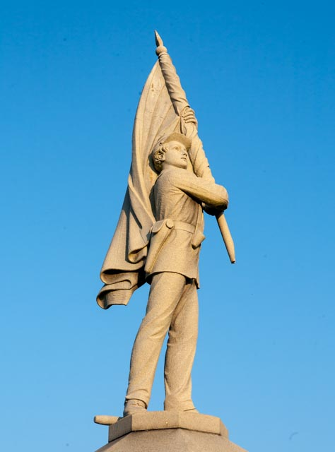 I took these photos during my obligatory annual family visit back to western PA. I love making the detour to Antietam National Battlefield near Sharpsburg, MD. We picked a lovely day in September 2012 but didn't get there until late afternoon after the Visitors Center closed - bummer - but there is always next time!